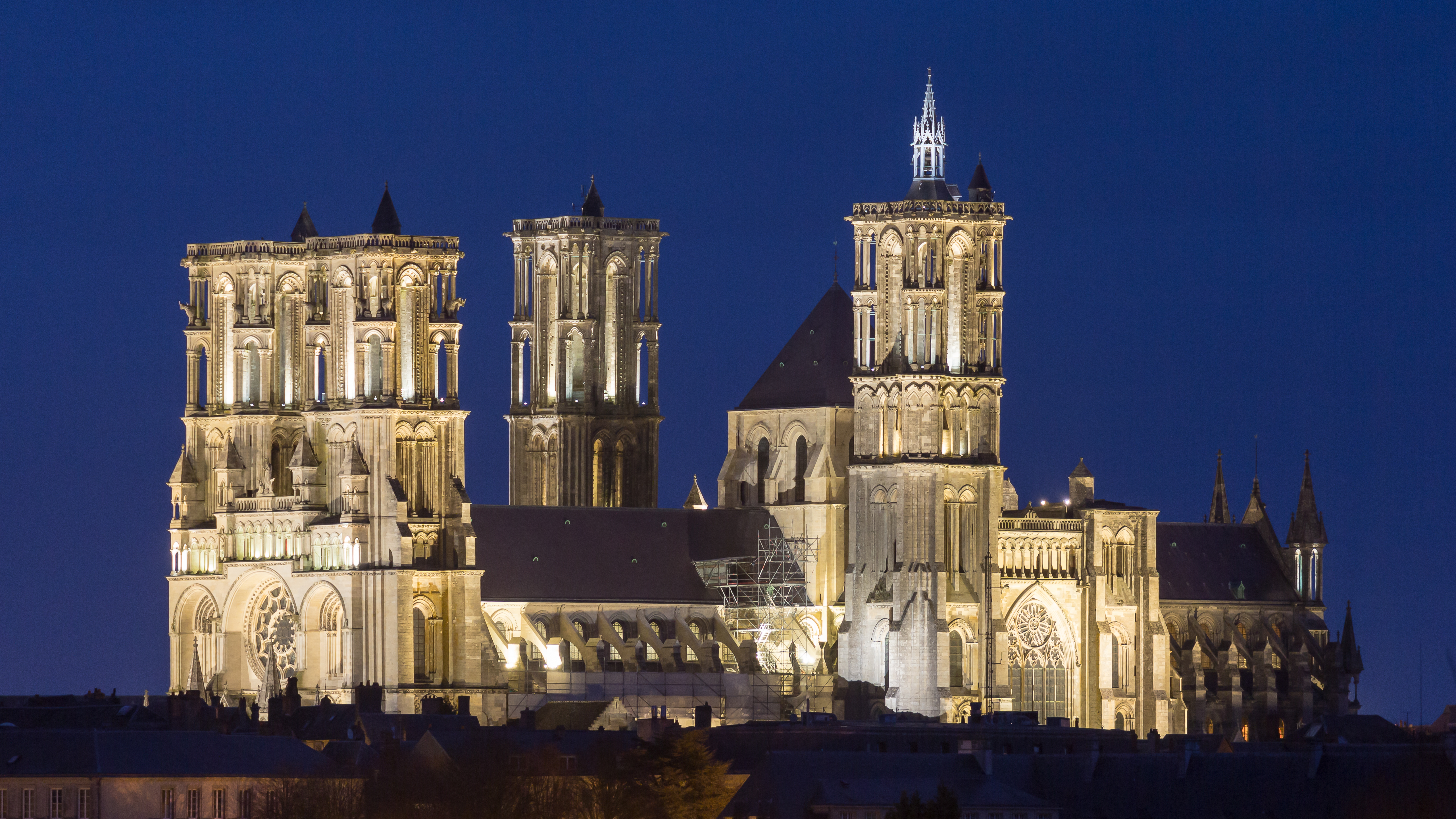 Cathédrale Notre-Dame de Laon at night